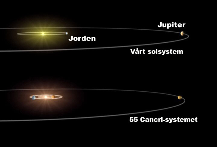 Our solar system compared with the solar system of 55 Cancri